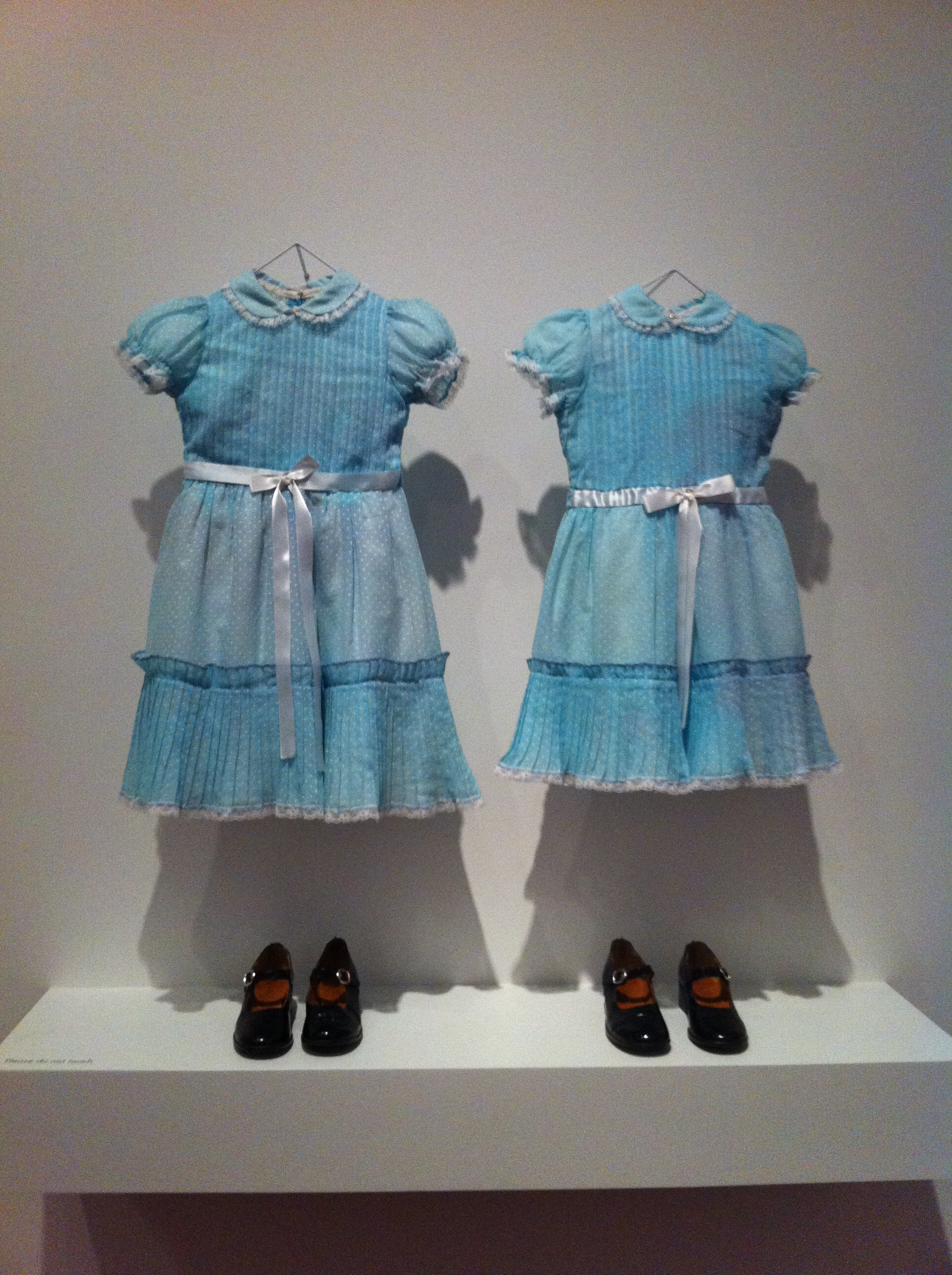 Stanley Kubrick exhibit at Los Angeles County Museum of Art, dresses of twins from the movie Shining (1980)